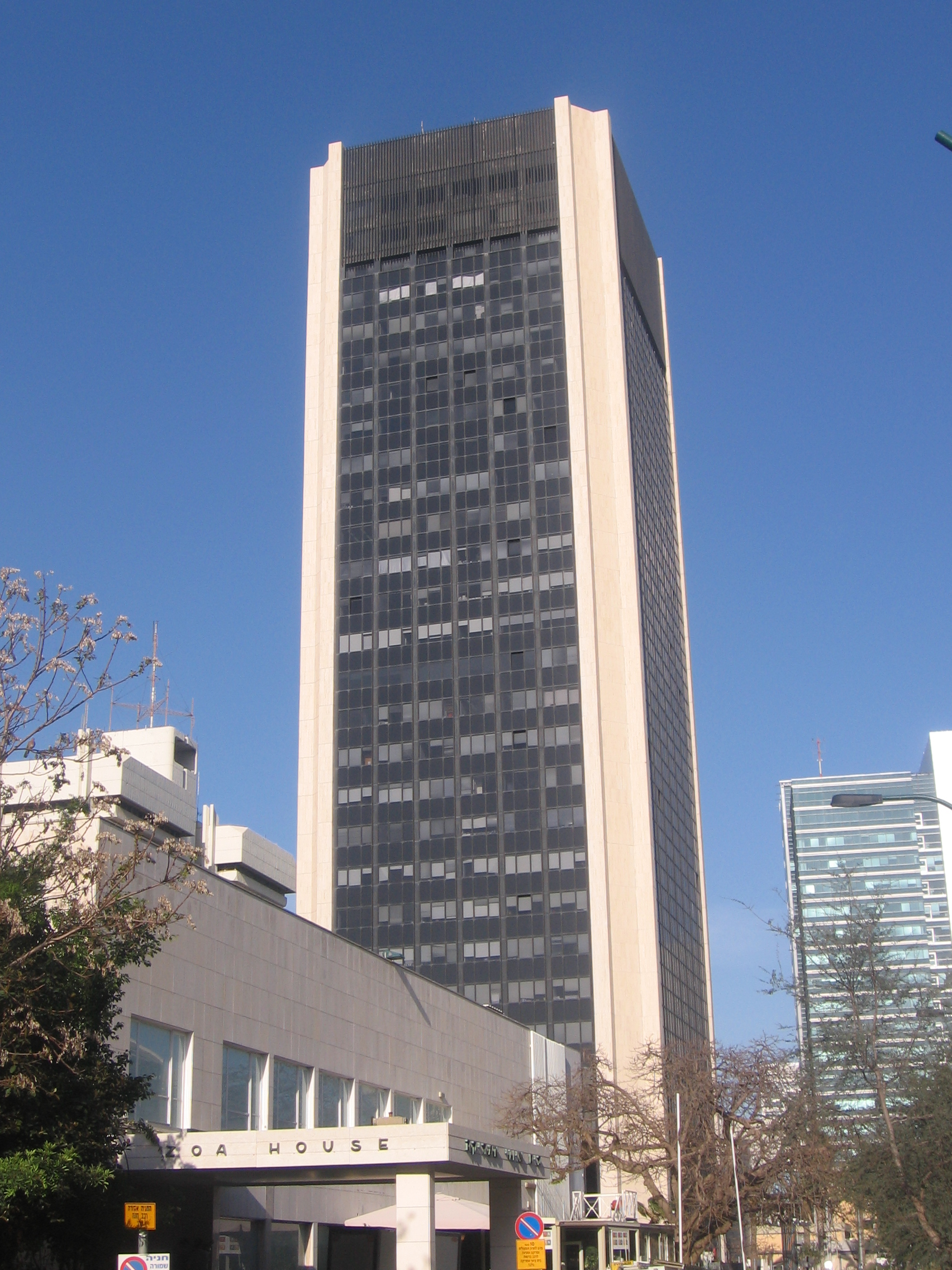 Daniel Frish tower in Tel Aviv. It is home to the German Embassy of Israel.